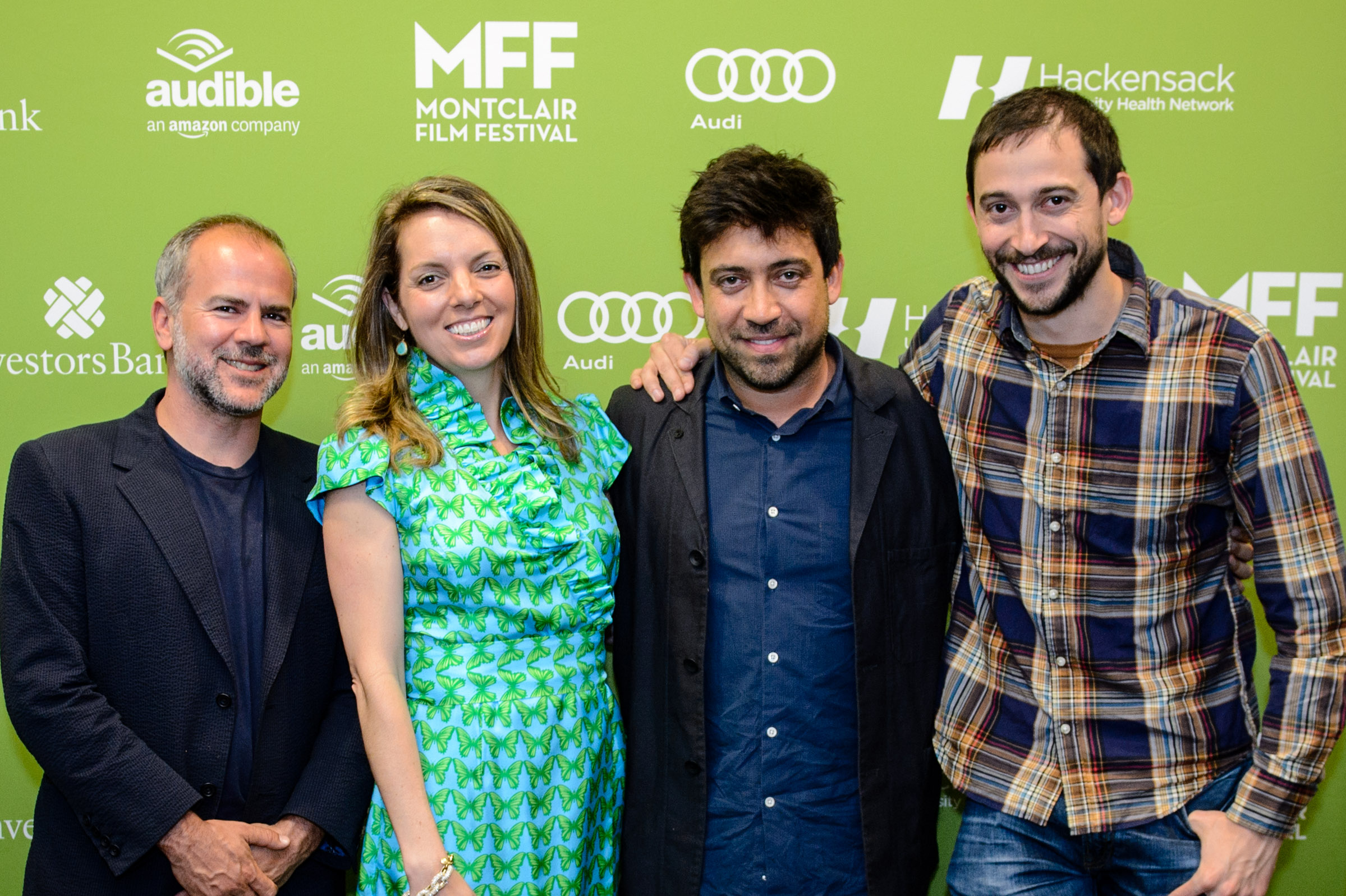 Me & Earl & the Dying Girl at the Montclair Film Festival, May 2015